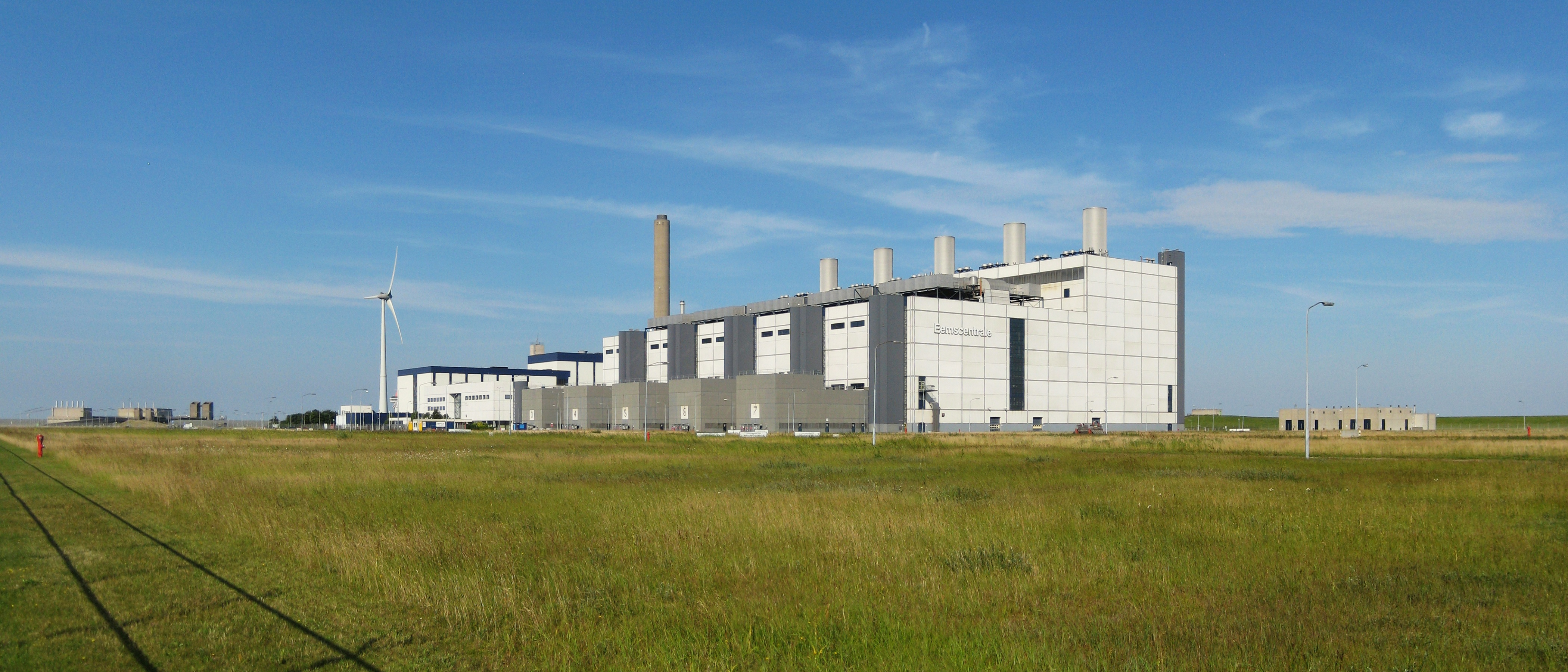 The Eemscentrale, a power plant in the Eemshaven, a port in the Dutch province of Groningen.